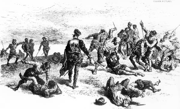 It was Saturday, the 29th of September, the feast of St. Michael; the sun had already set when the Frenchmen reached the mark drawn in the sand near the banks of the lagoon, and the orders of Menéndez to kill the Huguenots were executed.